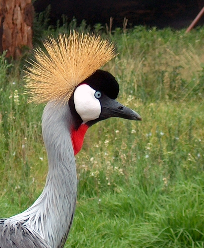 Grey Crowned Crane